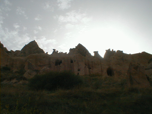 Taken with Olympus Camera (1.2 megapixel)